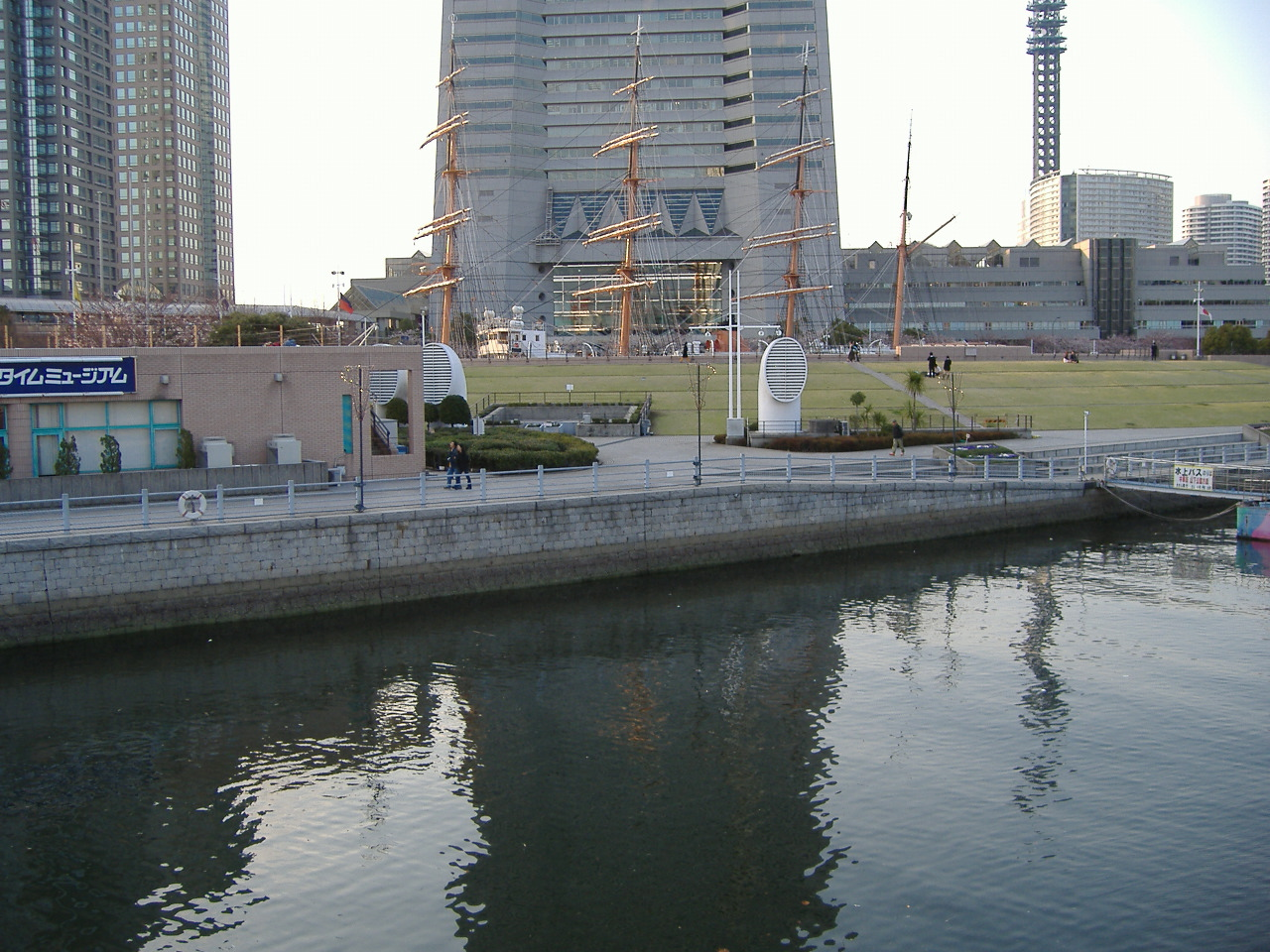 Yokohama Maritime Museum (Yokohama, Japan)